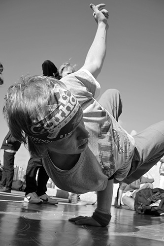 A b-boy performing at Street Summit 2006 in Moscow.